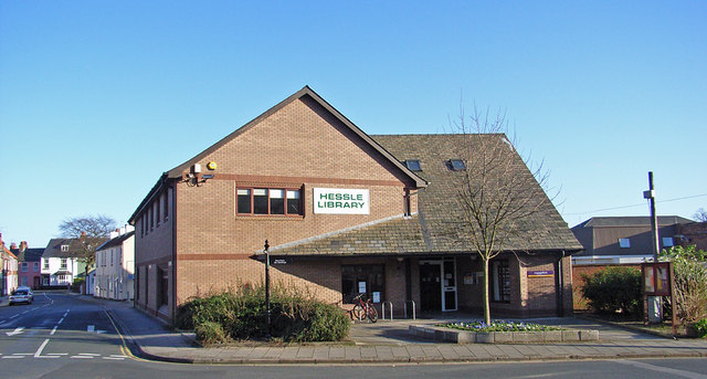 The library Hessle, East Riding of Yorkshire, England